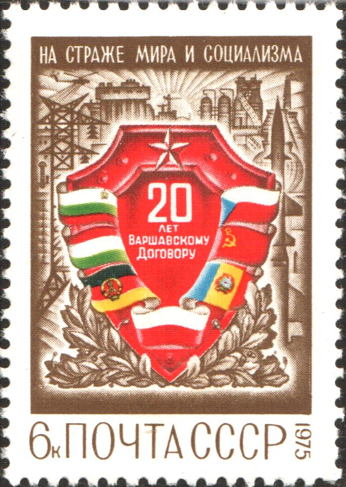 20 years to Warsaw Treaty, USSR stamp, 1975, 6 k.